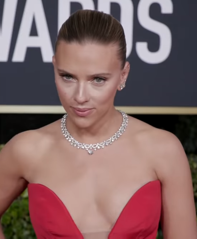 Scarlett Johansson at Golden Globes Red Carpet 2020